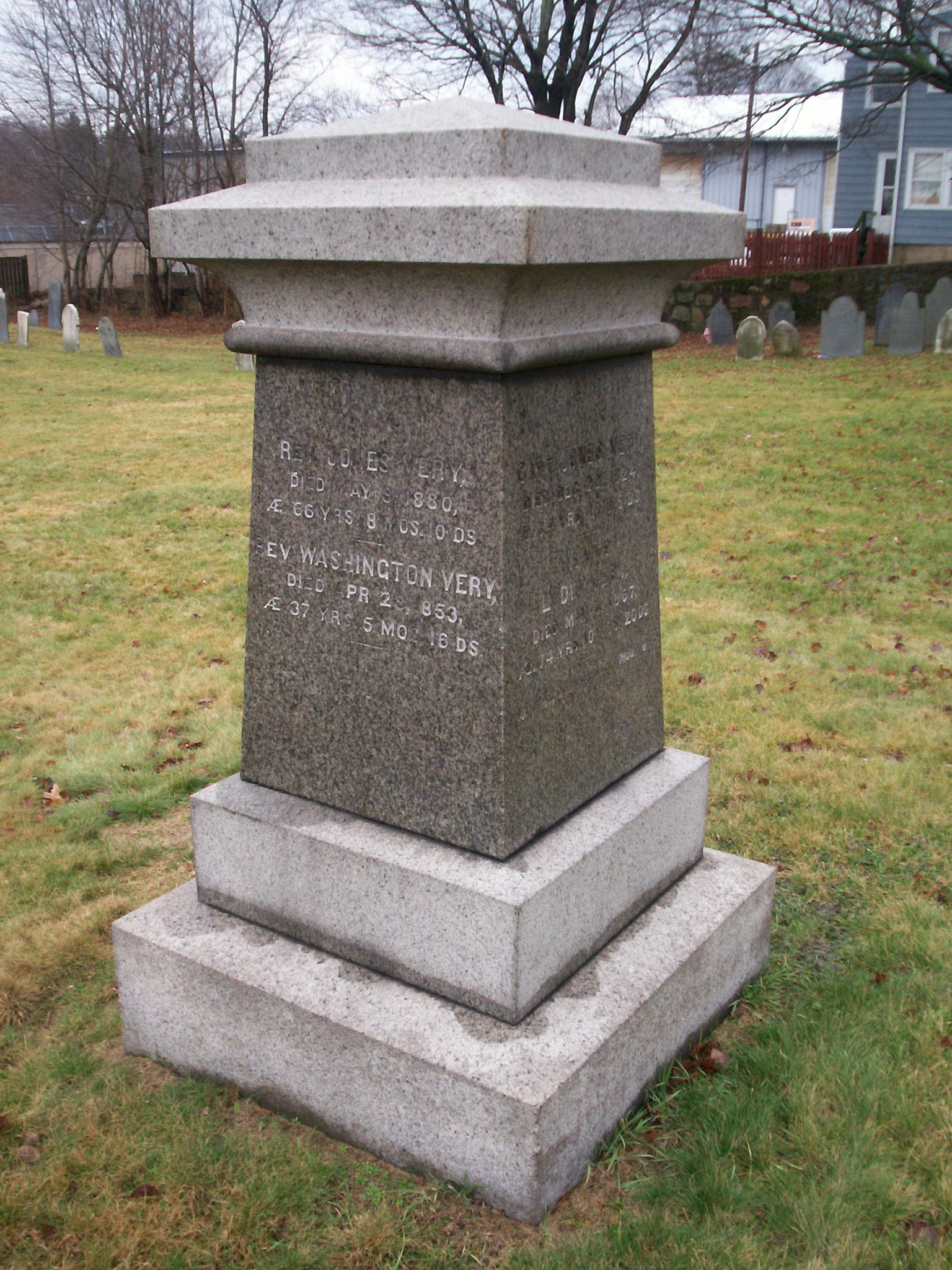 Grave of Transcendentalist Jones Very in Peabody, Massachusetts. (Taken in the rain; I'll try to get a better shot next time I head up to that area)